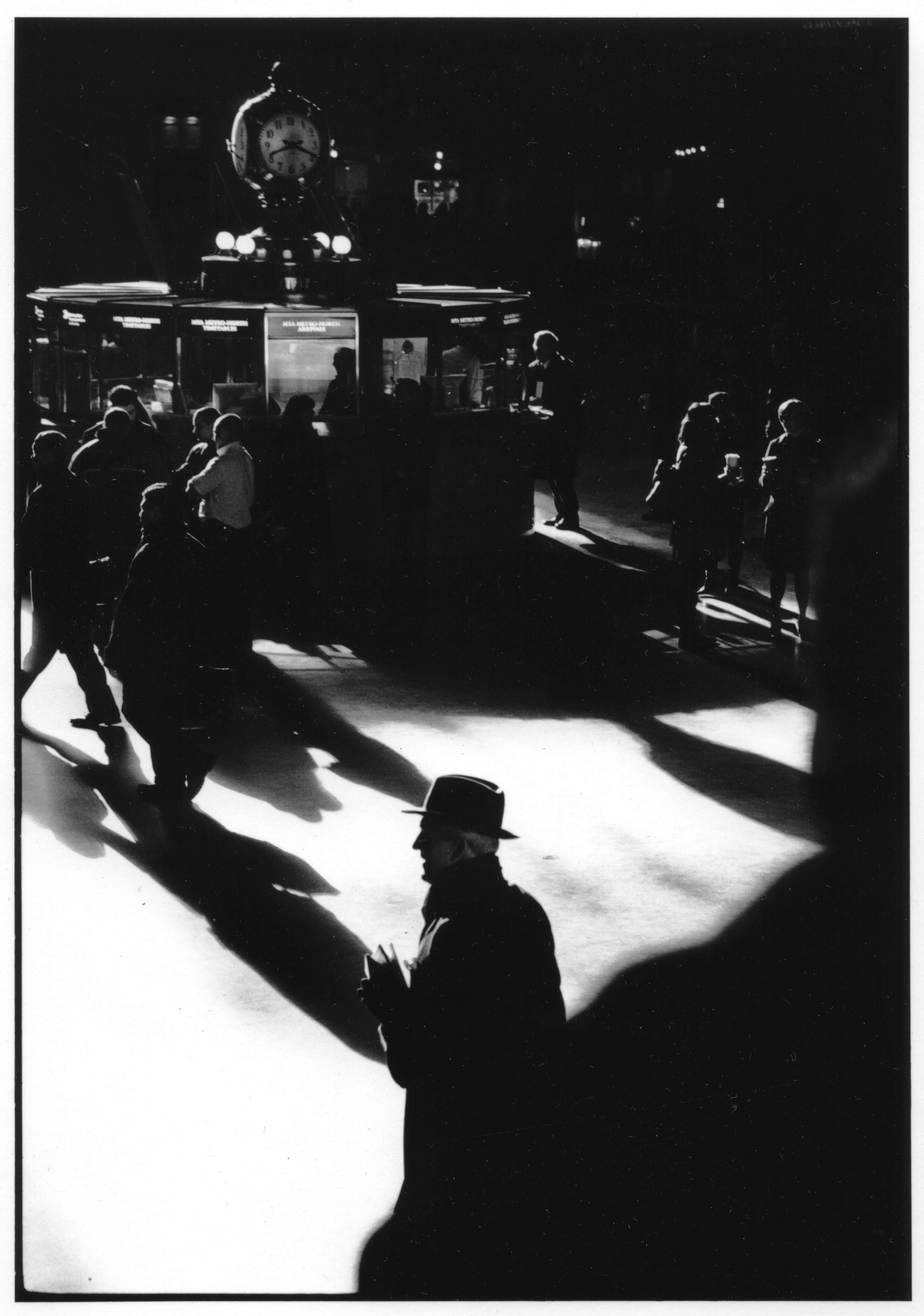 Grand Central Terminal photographed in 2009 by Olivier Meyer